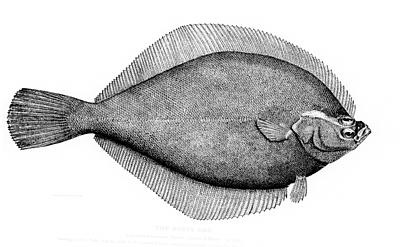 Yellowtail flounder (Limanda ferruginea)